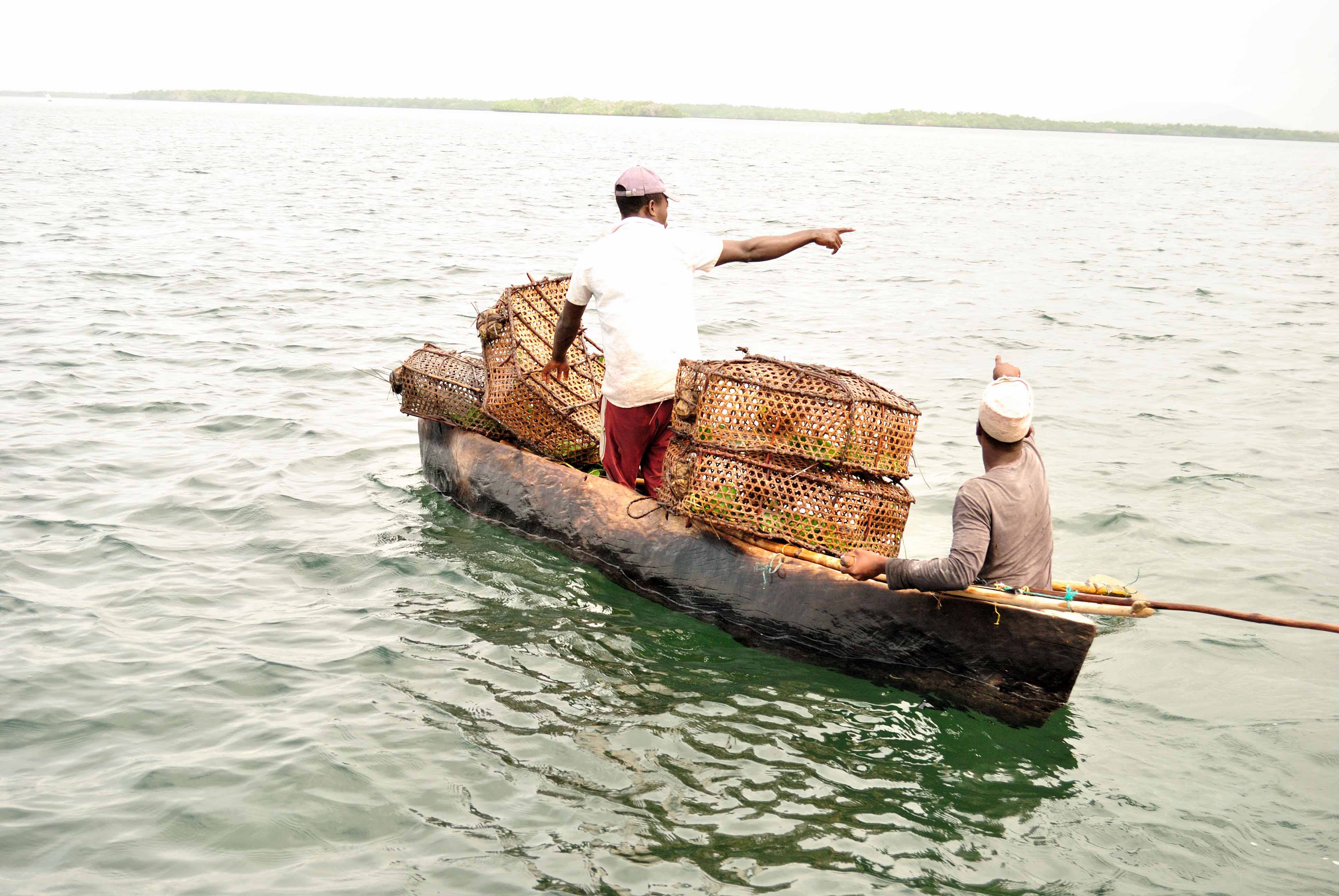 Local fishers in Kenya using the basket trap to fish in the Indian ocean This is an image of "African people at work" from Kenya